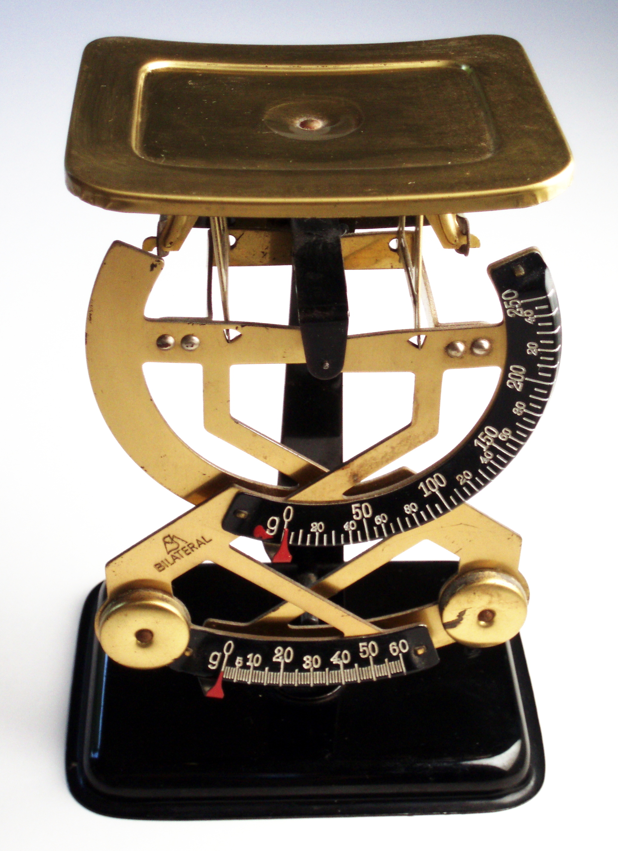 Vintage German letter balance for home use